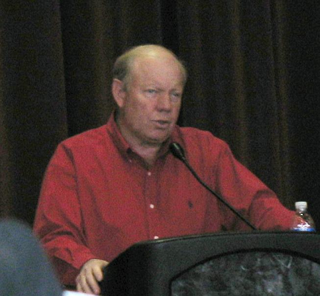 Salt Lake City businessman and Utah Jazz owner Larry H. Miller speaks at the University of Utah to a crowd of gay rights activists and other protesters, many of them dressed in cowboy hats. Miller explains his decision to pull Brokeback Mountain from local cinemas (due to the homosexual content of the film).